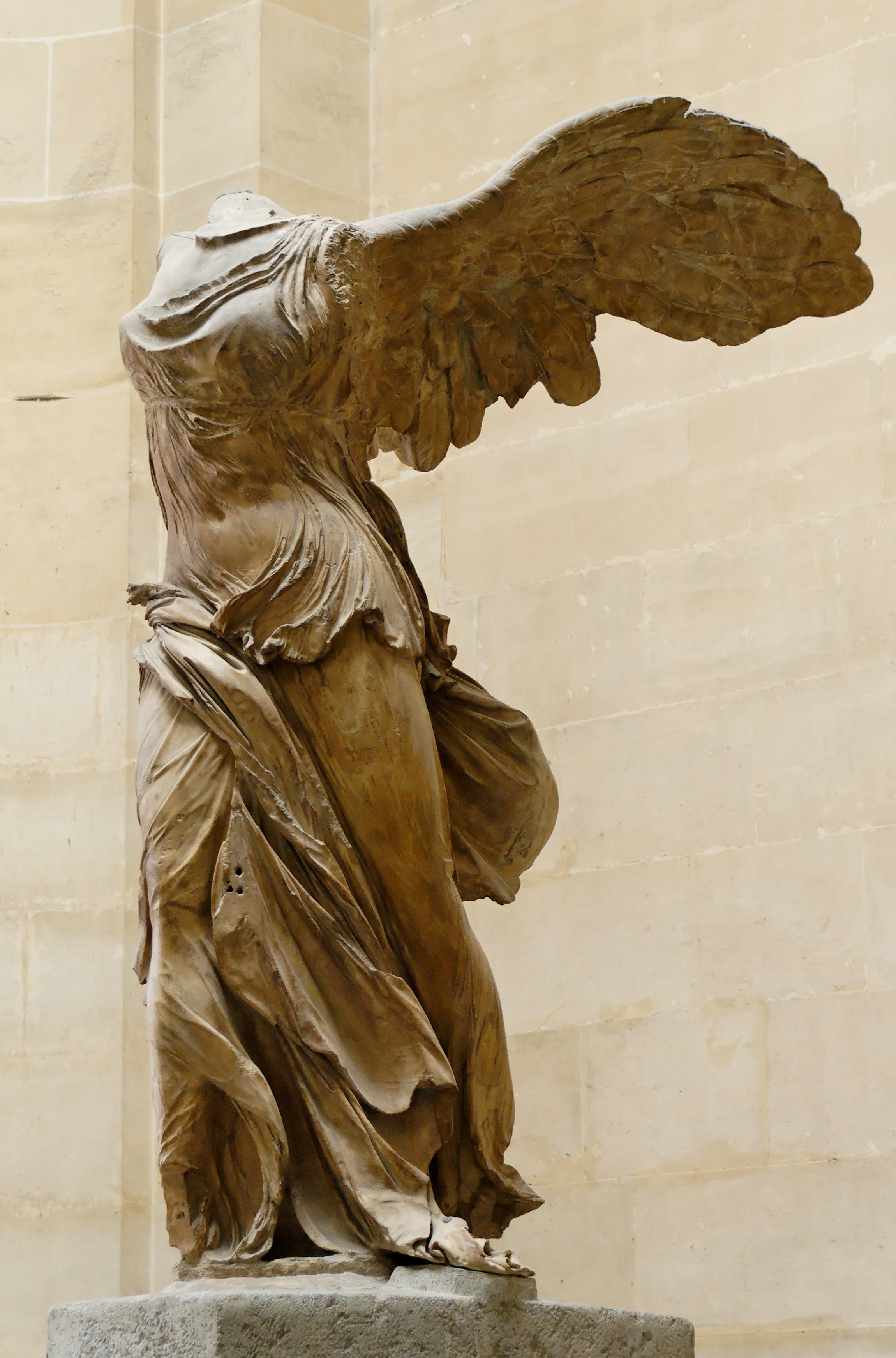 Winged Nike of Samothrace. Parian marble, ca. 190 BC? Found in Samothrace in 1863.